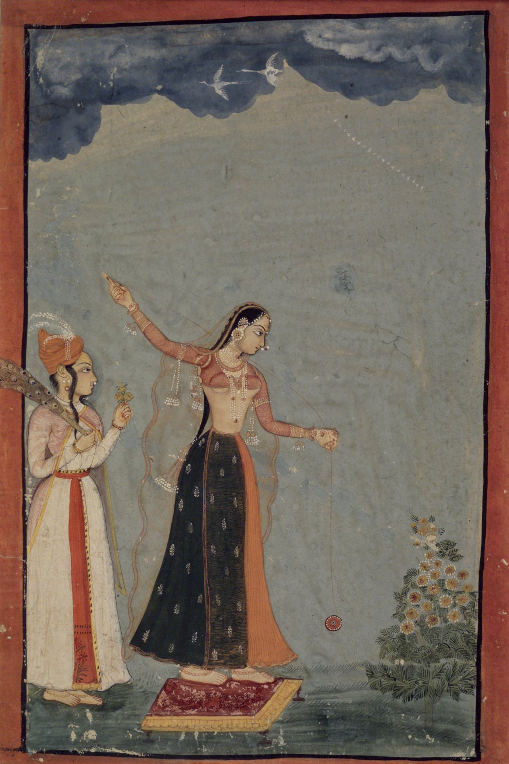 This painting belongs to the extensive genre of paintings depicting lonely women who must amuse themselves while their lovers are away. It shows a woman playing with a string toy that is similar, but not identical, to a Western yo-yo. She stands on a low stool, which serves as a pedestal, inviting us to admire the beauty of the subject. The servant standing behind her is probably a woman (judging by the thin veil over her shoulders and her hennaed feet), although she is dressed in the turban and long coat (jama) of a man. She holds a peacock-feather fan that she can use to create breezes as well as to shoo away insects.